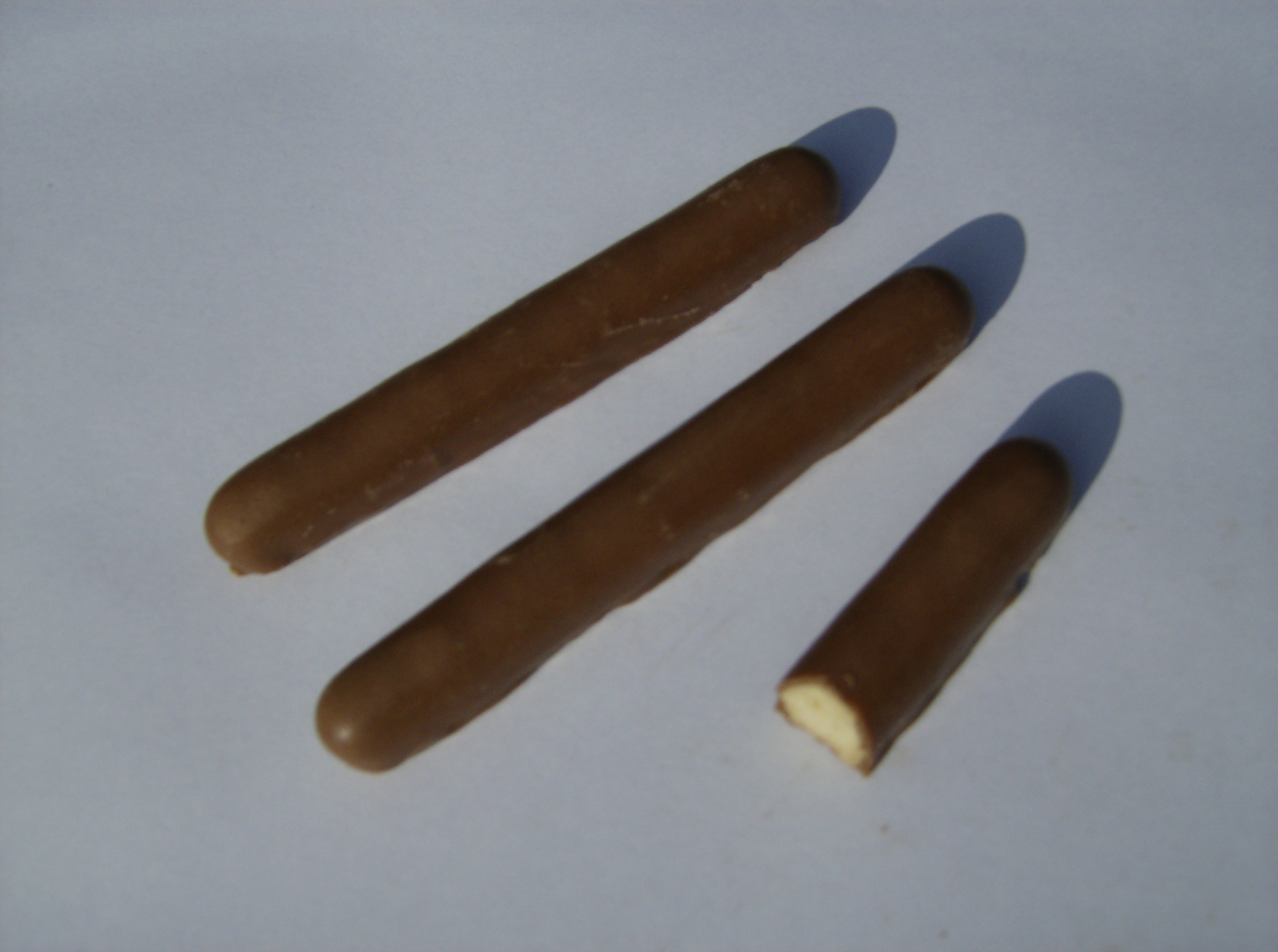 Cadbury Finger biscuits